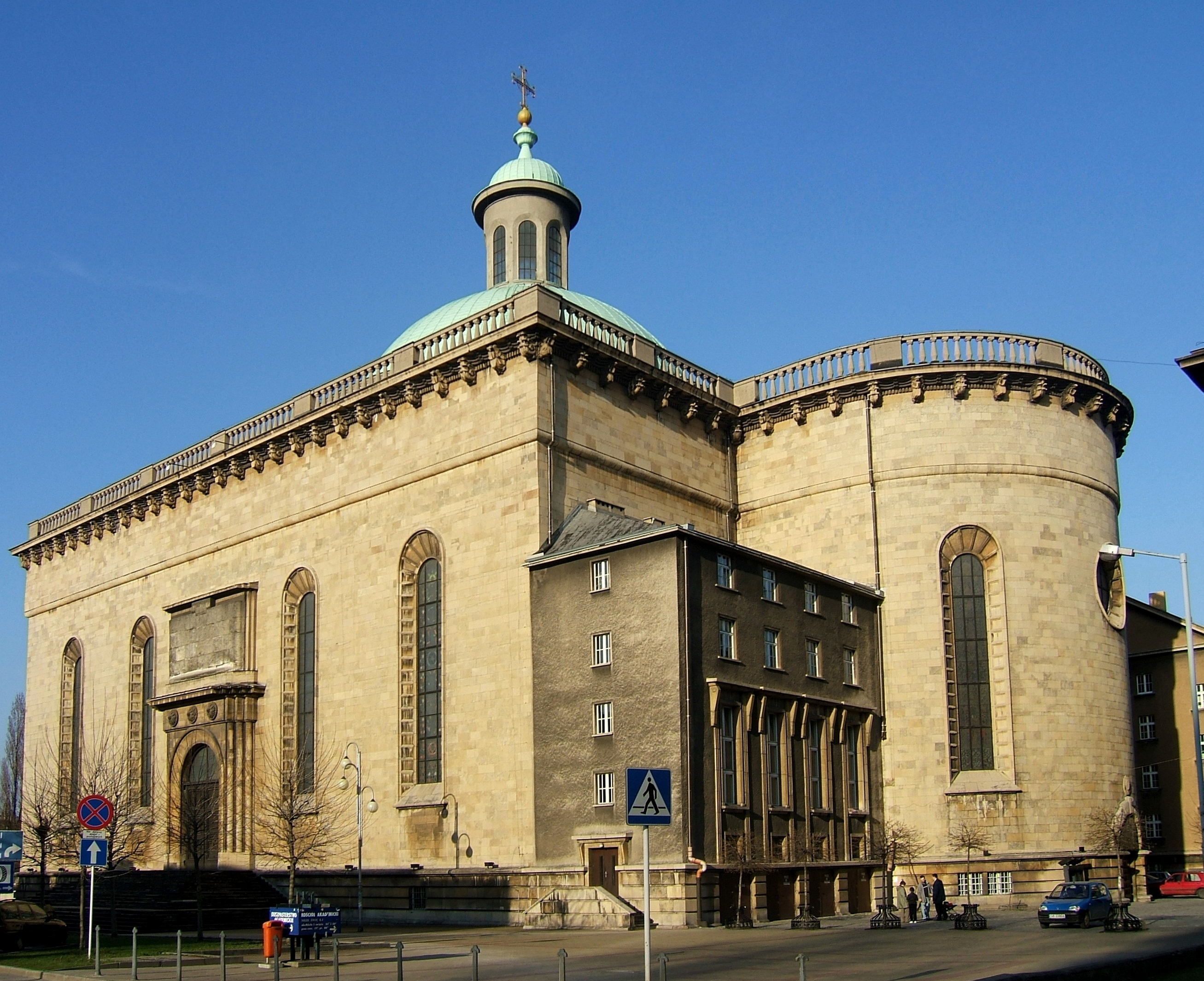 Backside of Katowice Cathedral. (zabytek nr rejestr. A/1658/97)